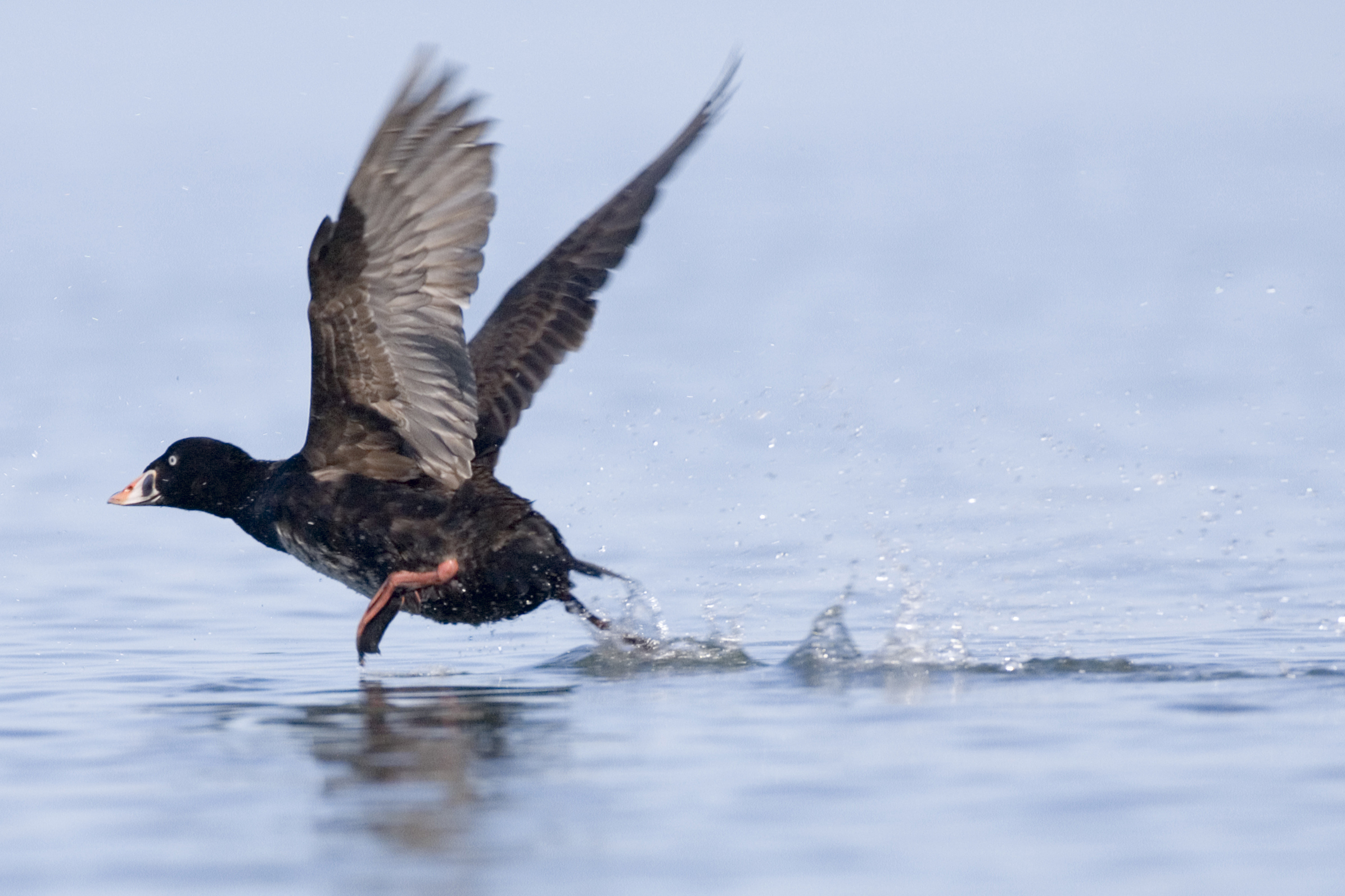 Surf Scoter (Melanitta perspicillata), Los Osos, Morro Bay, CA, March 28, 2007. Shot with a Canon 5D with 600mm IS lens with polarizer, Whimerley head, and Gitzo tripod, firmly mounted in the front of Marc Schulman's two-person outrigger canoe , shot in RAW, sharpened in Photoshop CS2. Photo by Mike Baird 28mar2007 28march2007